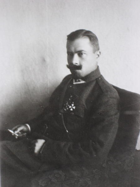 Katche, Maksimas (1879 – 1933), was a Russian colonel and Lithuanian lieutenant general, Knight of St. George.